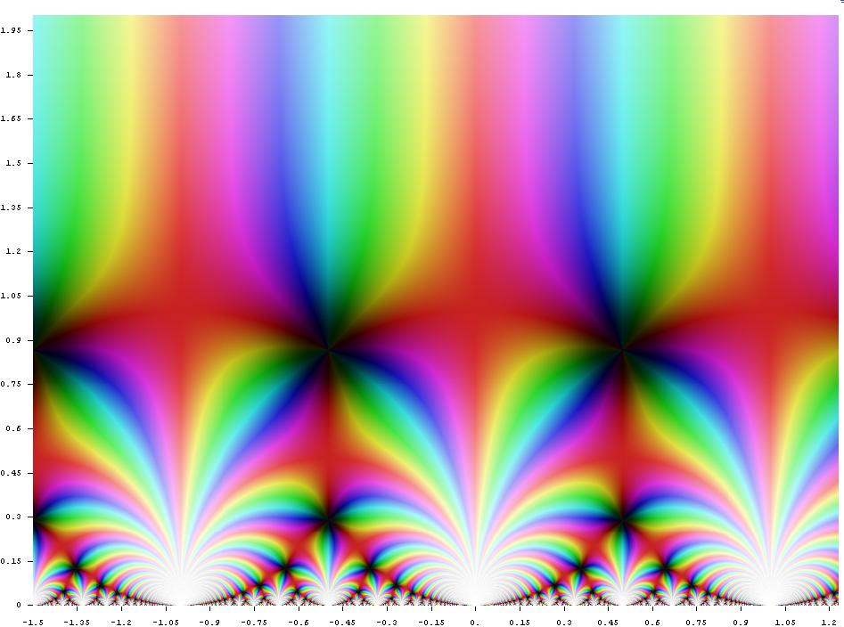 function KleinInvariantJ[z] (= g_2^3 / \Delta) in the complex plane